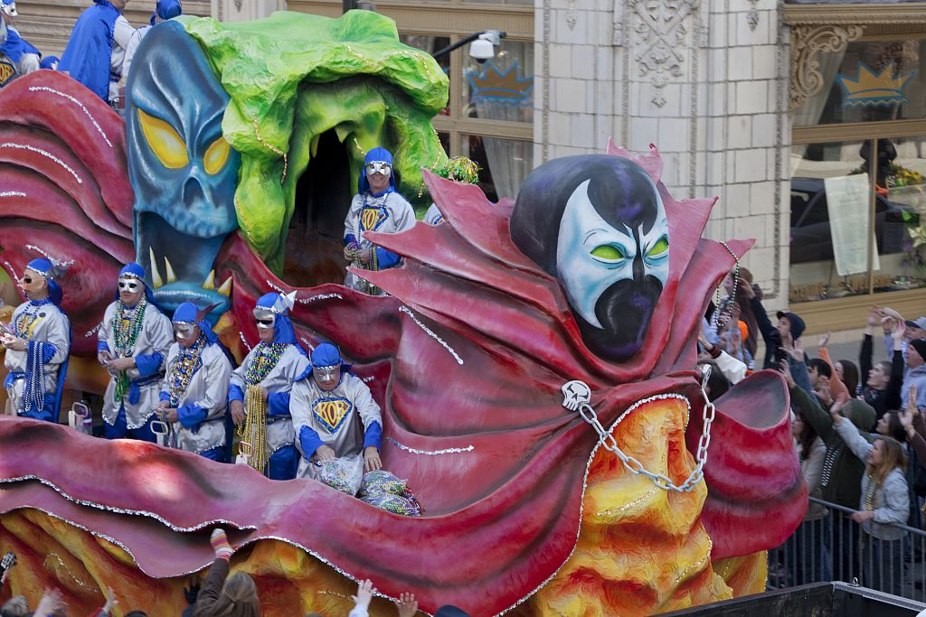 Mardi Gras, Mobile, Alabama.